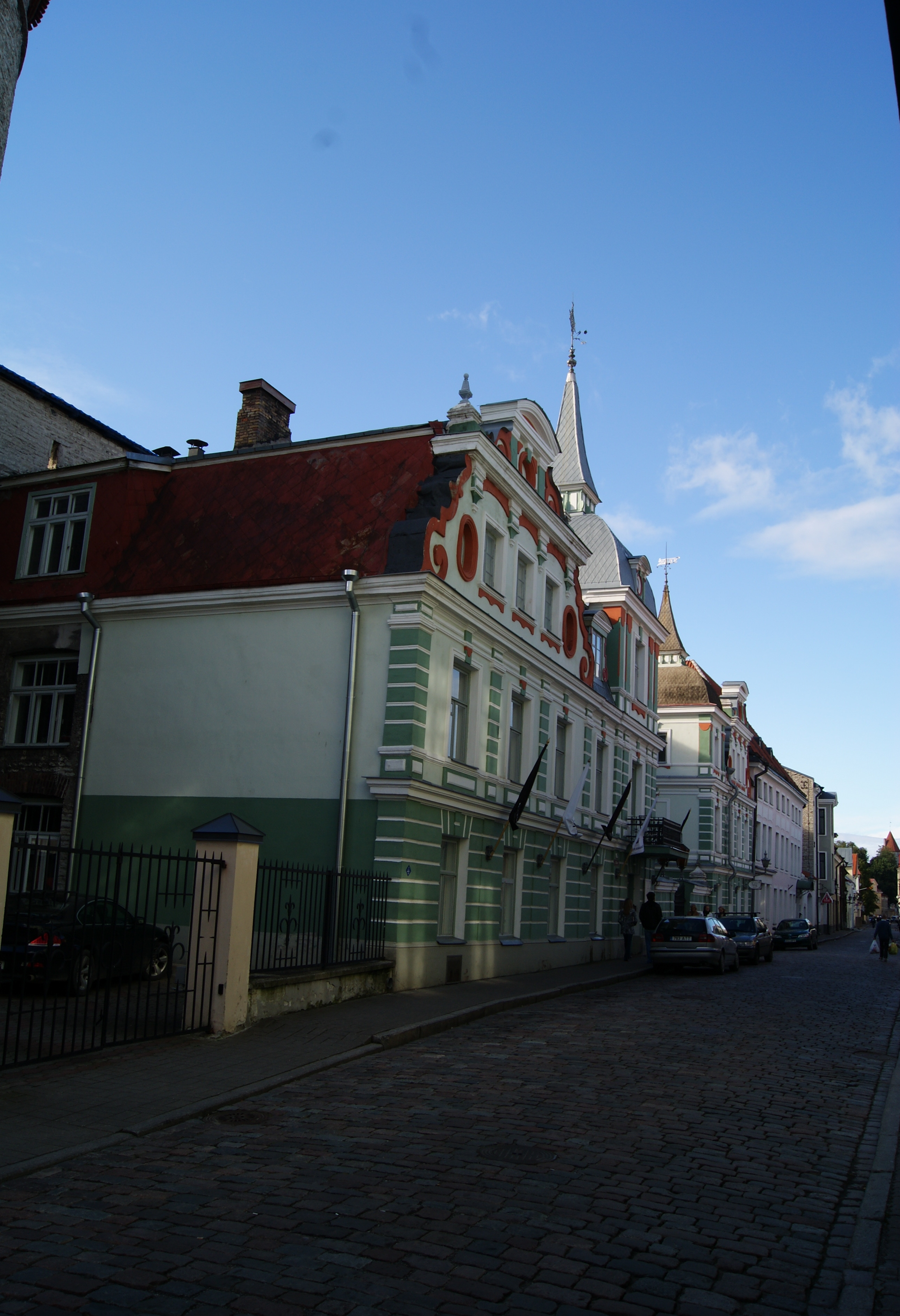 Tallinn, Estonia